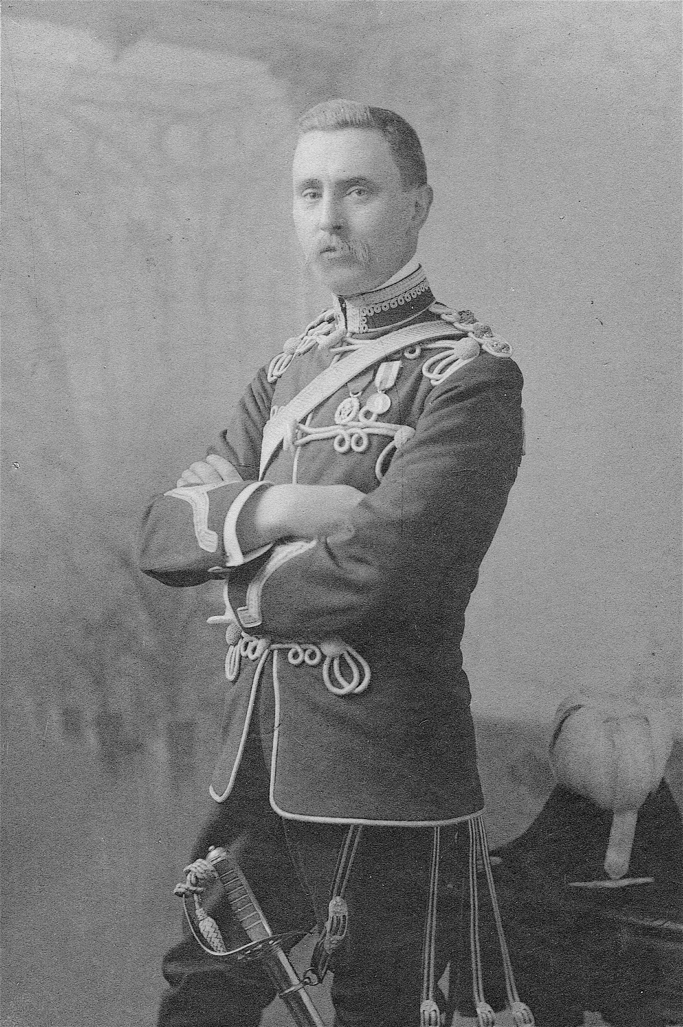 Col. William Ivison Macadam, Royal Scots Forth VI regiment in uniform three quarter length photograph taken in 1896 or 1897